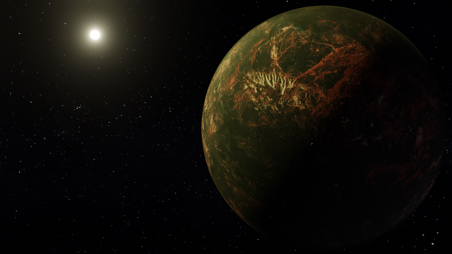 Artist's concept of a carbon planet